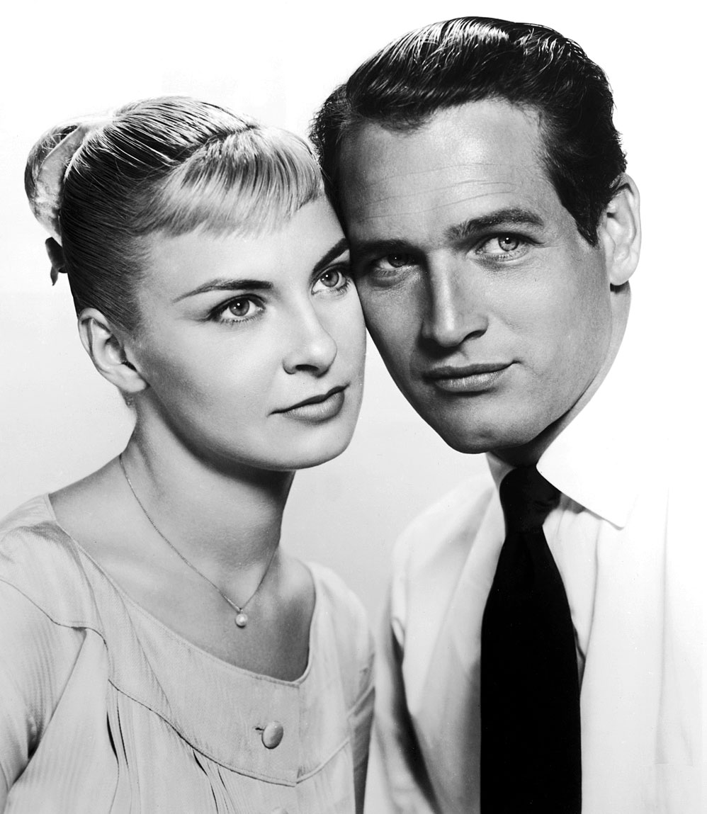 Publicity portrait of the movie The Long, Hot Summer, depicting Paul Newman and Joanne Woodward